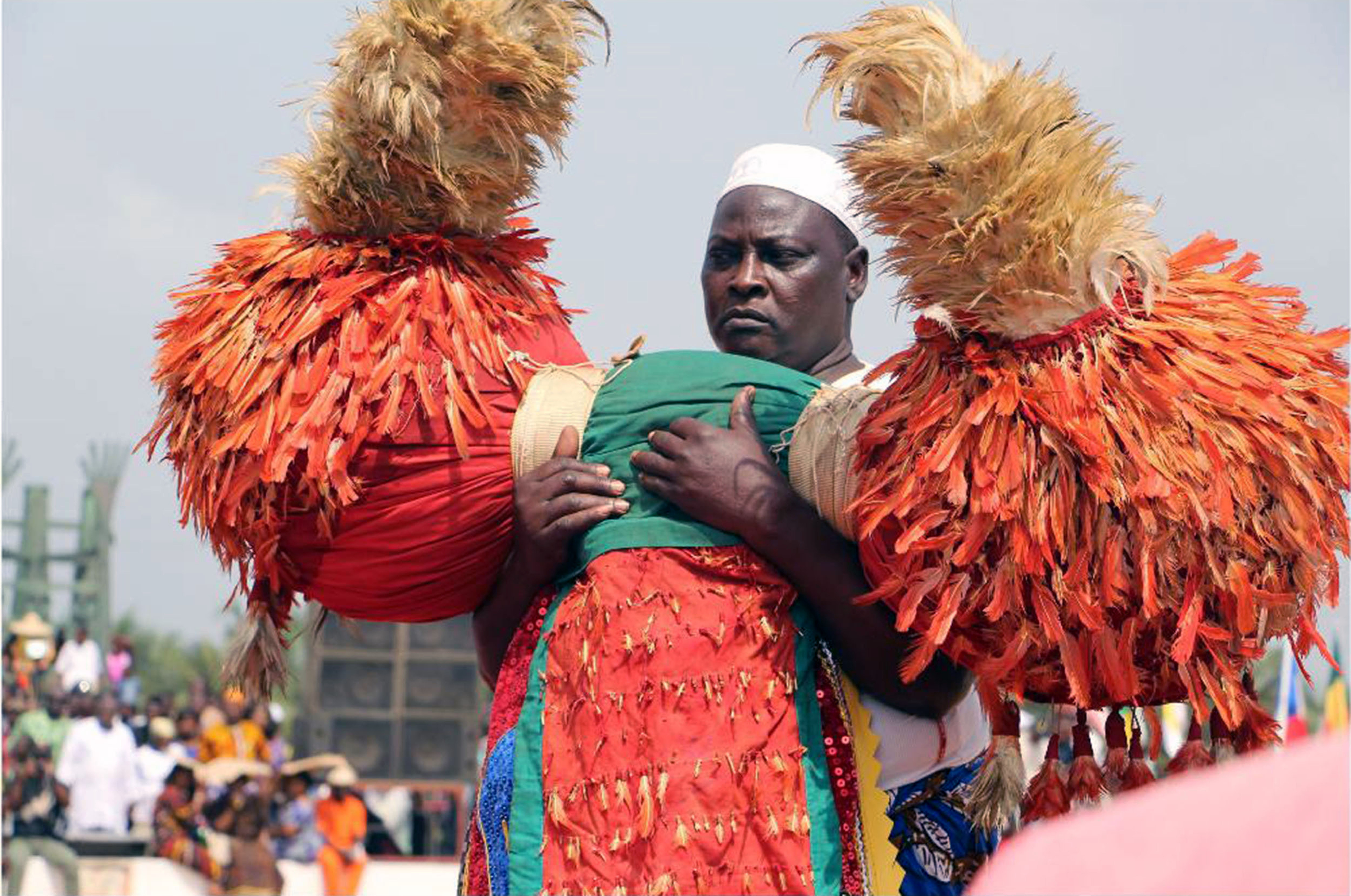 the followers of Sakpata in demonstration in Ouidah This is an image with the theme "Africa on the Move or Transport" from: Benin